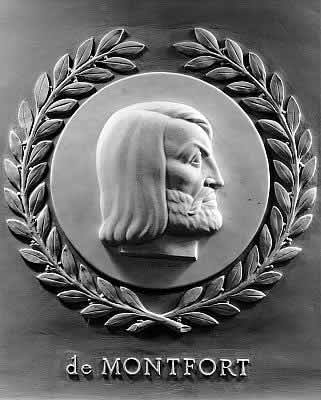 Simon de Montfort, 6th Earl of Leicester marble bas-relief, one of 23 reliefs of great historical lawgivers in the chamber of the U.S. House of Representatives in the United States Capitol. Sculpted by Gaetano Cecere in 1950. Diameter 28 inches.